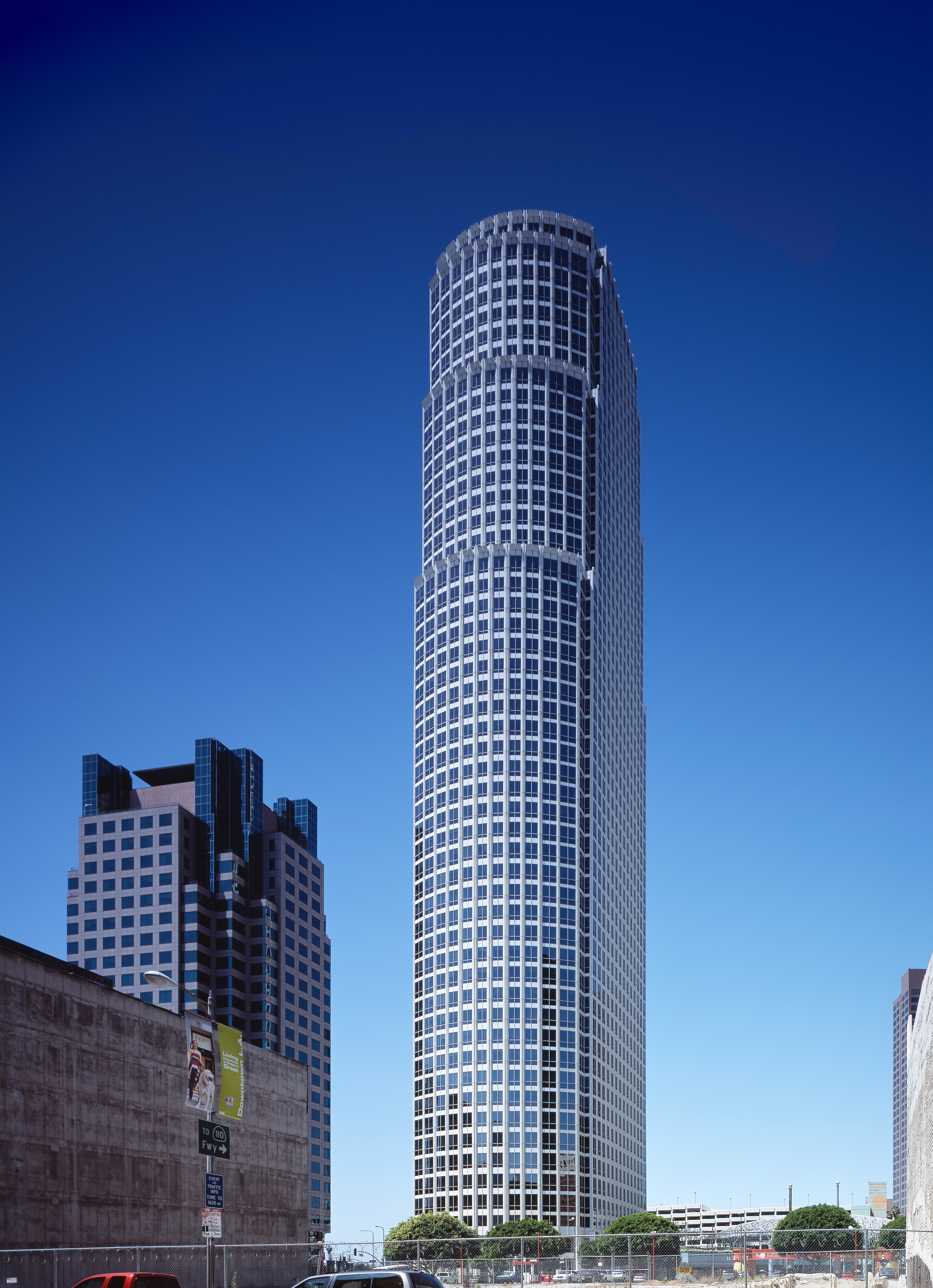 777 Tower, award winning building designed by César Pelli and built in 1991. Citicorp Plaza's fifty-three-story 777 Tower, by Cesar Pelli and Associates, was completed on South Figueroa Street in Los Angeles in 1991. The building features a reflective white-metal skin and series of towers that seem to fold into one another, 04/07/05, LC-DIG-pplot-13725-01379 (digital file from LC-HS503-502).